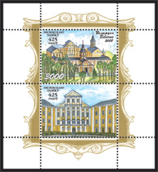 Stamp of Belarus